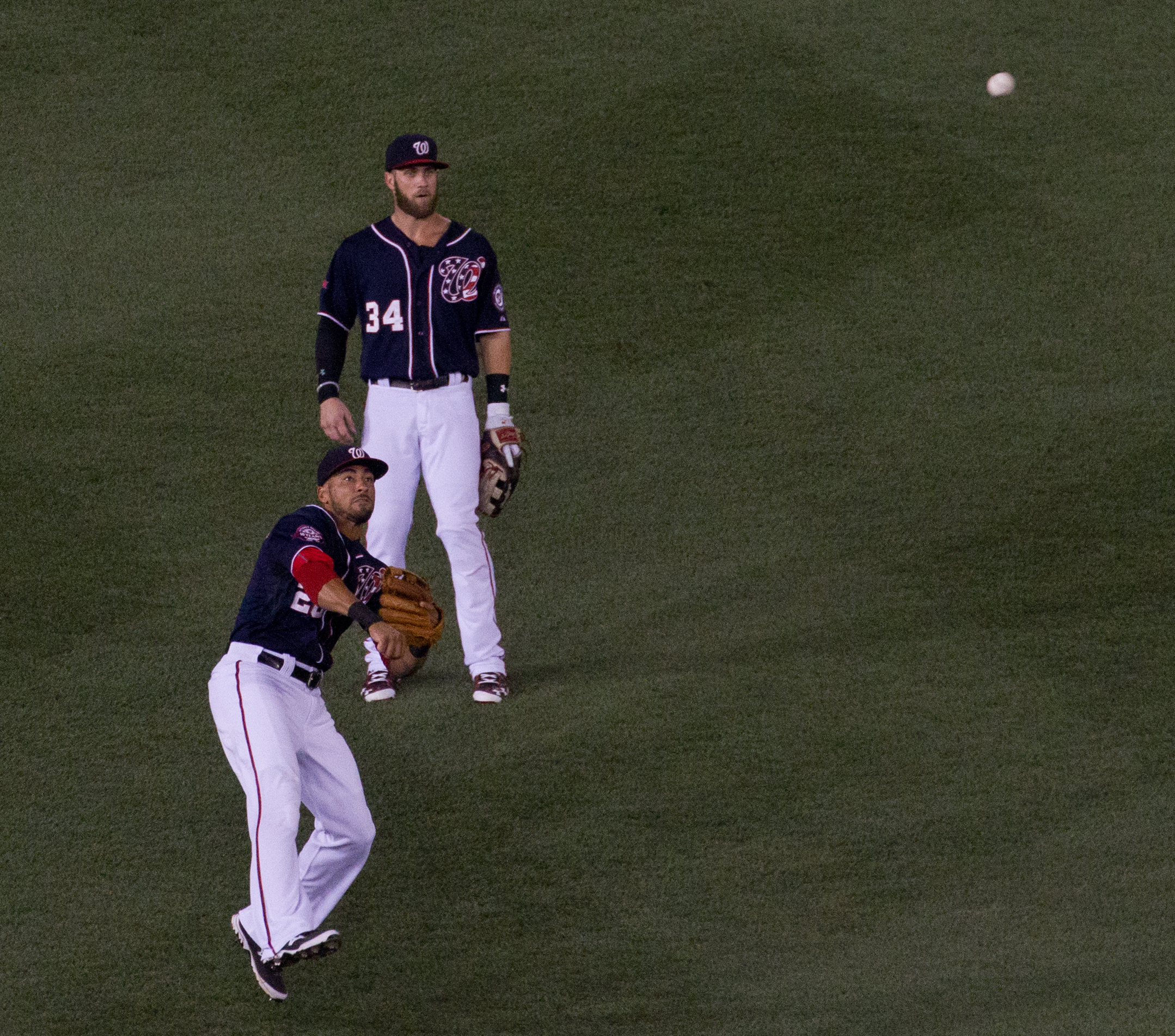 Ian Desmond and Bryce Harper